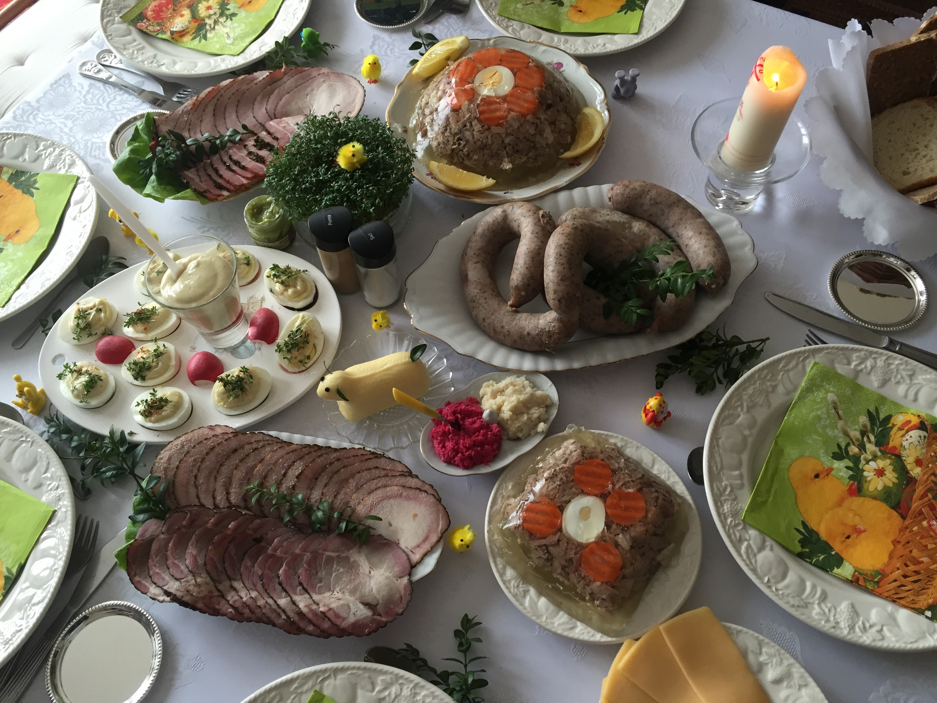 Polish Easter breakfast, including cold cuts, sausages, meat aspics, stuffed eggs, beetroot-and-horseradish relish, garden cress and a lamb carved out of butter.